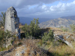 see user:Attilios talk for images from